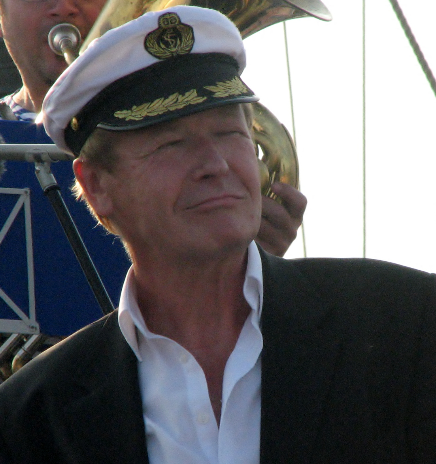 Väino Puura performing in Kuressaare Maritime Days